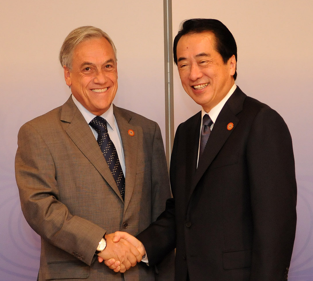 Sebastián Piñera, President, met with Naoto Kan, Prime Minister, at the site of the Asia-Pacific Economic Cooperation Leaders' meeting in Yokohama City, Kanagawa Prefecture on November 13 2010.